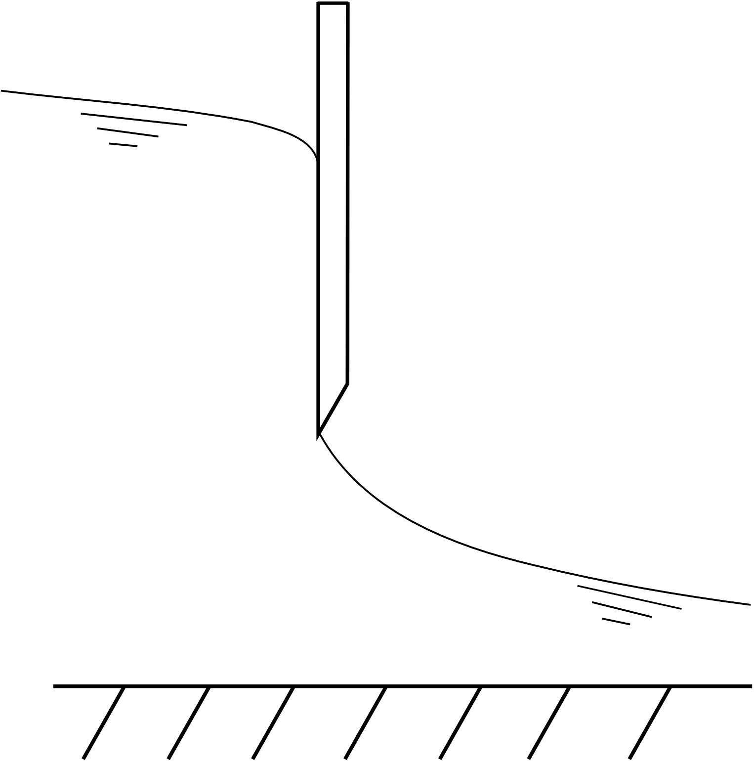 Diagram of a sluice where the water level is forced higher on the upstream side. If the sluice is raised too high, it loses contact with the water and the level can fall.